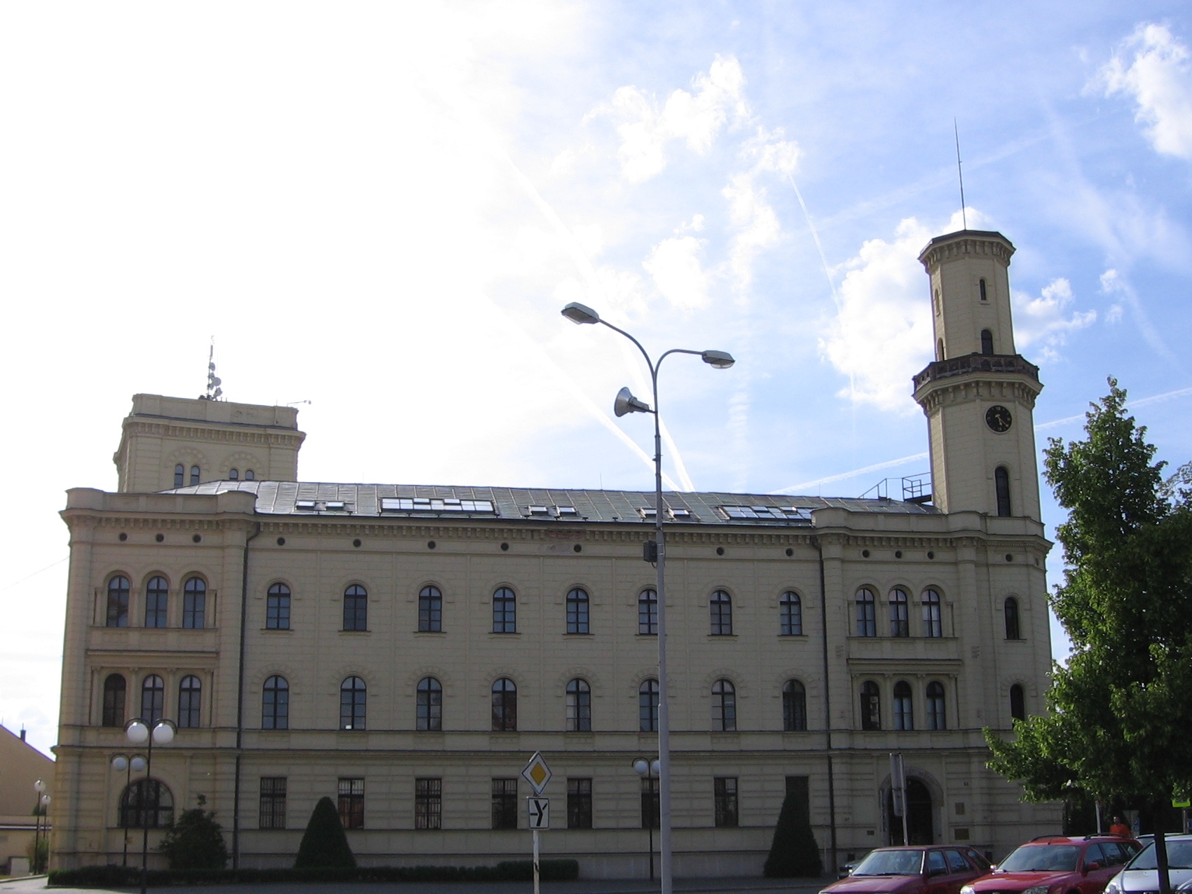 City hall in Mladá Boleslav.